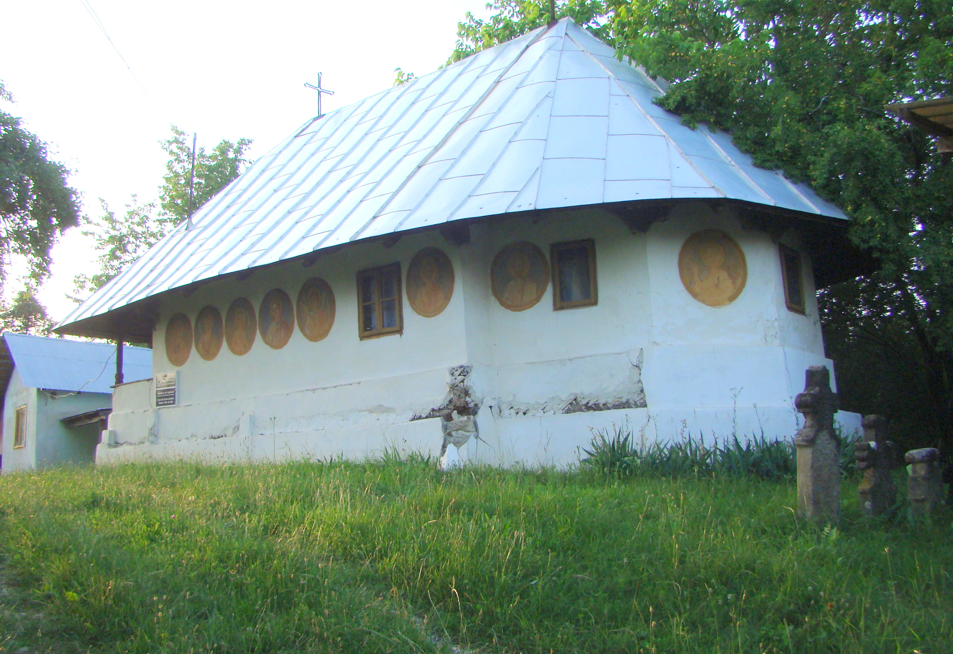 Wooden church in Seciurile, Gorj county, Romania